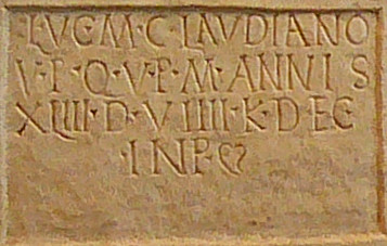 Detail of the Sarcophagus of Marcus Claudianus (AD 330-335, Palazzo Massimo, Rome): the inscription